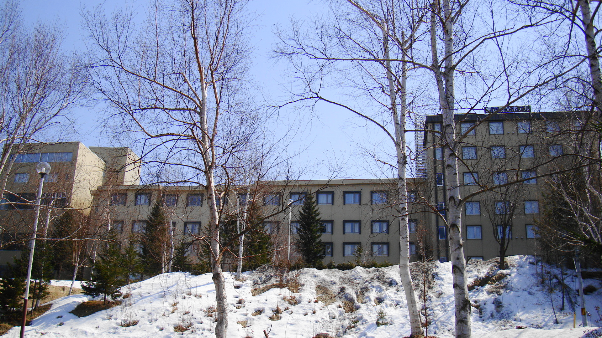 Abashiri Kankō Hotel / Dōtō Kankō Kaihatsu main office